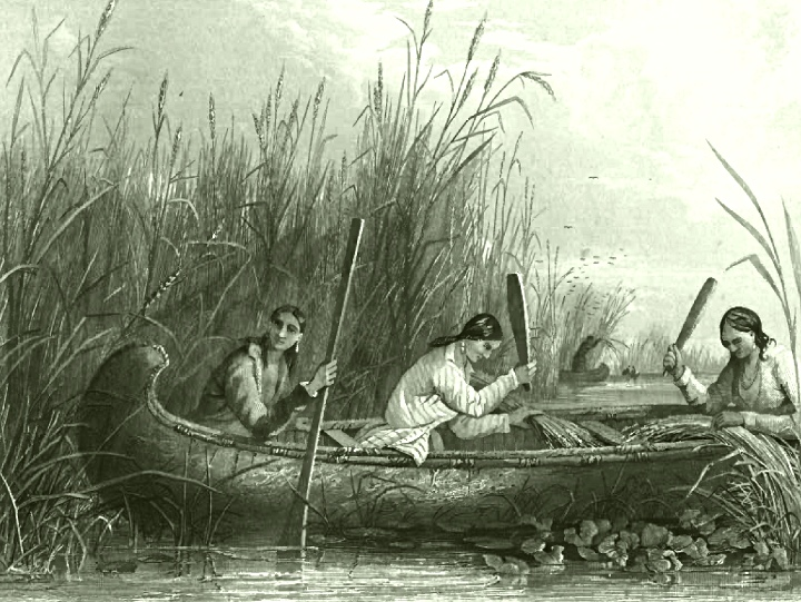 19th Century tribal women harvesting wild rice in the traditional manner.